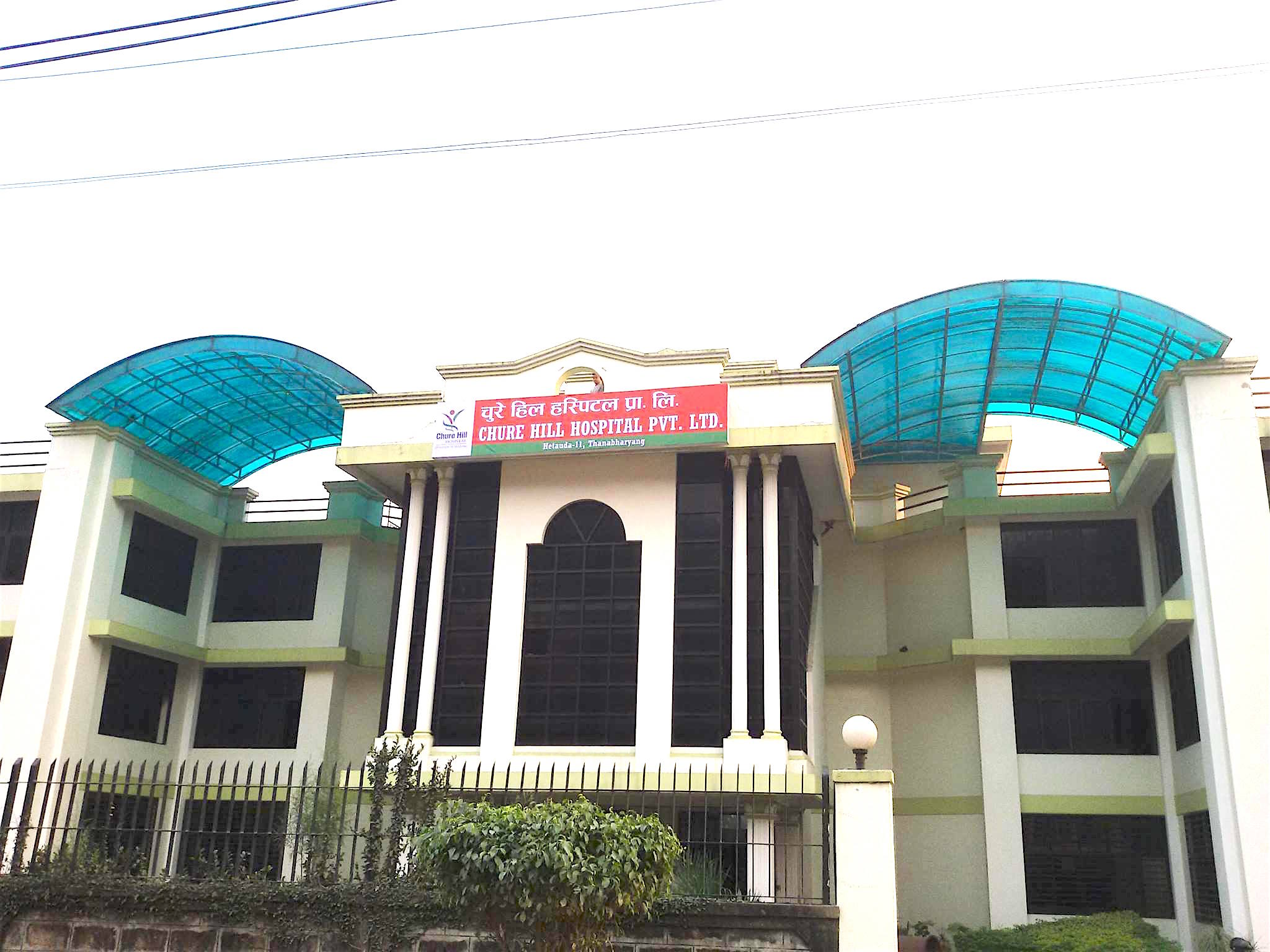 A Multi Speciality Neuro Trauma Centre Located In Hetauda